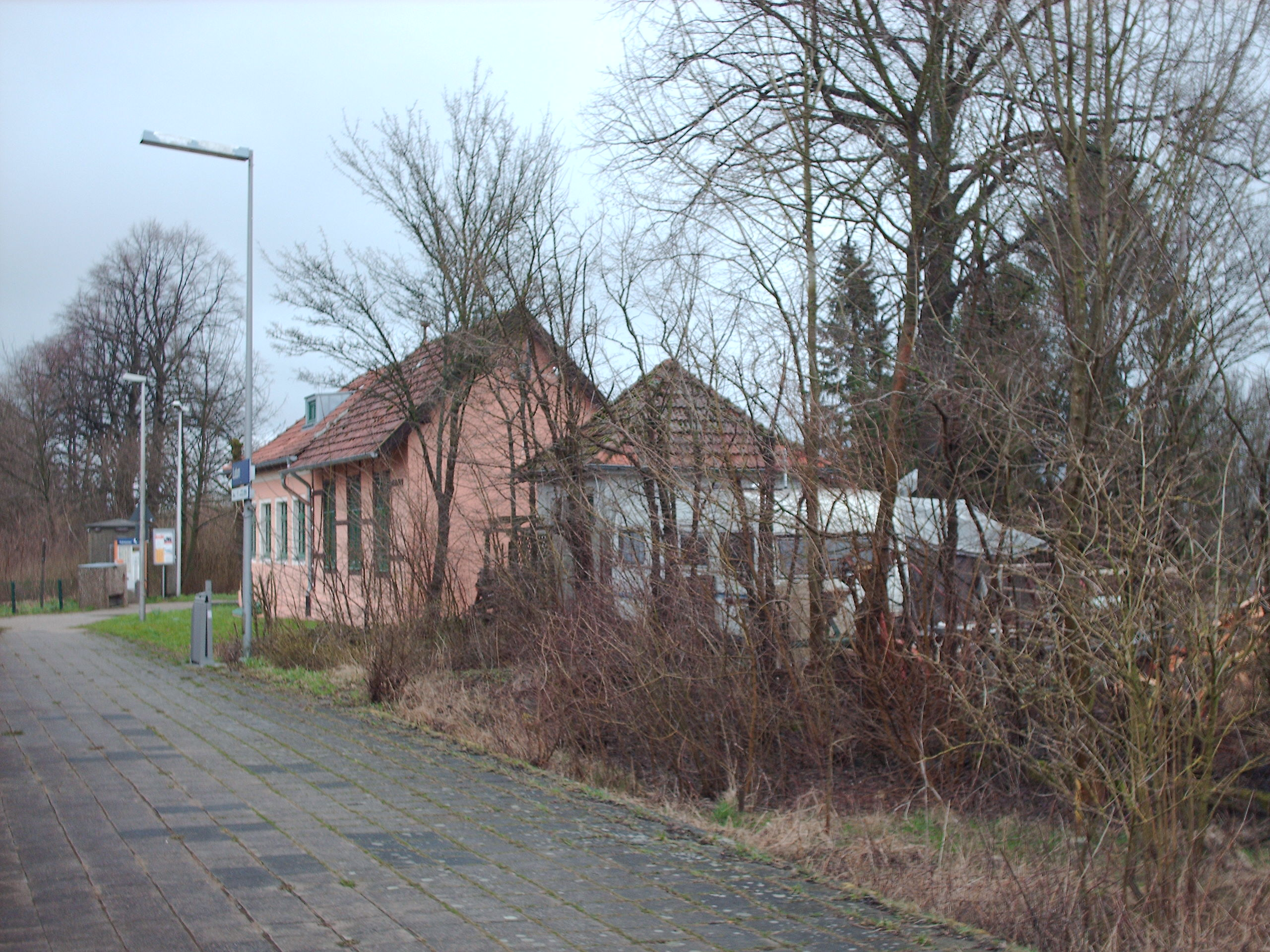 Lutum station, Billerbeck, Germany check usage